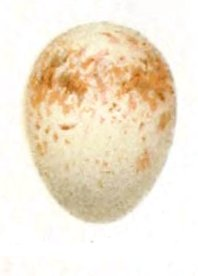 Egg of Eumyias albicaudata